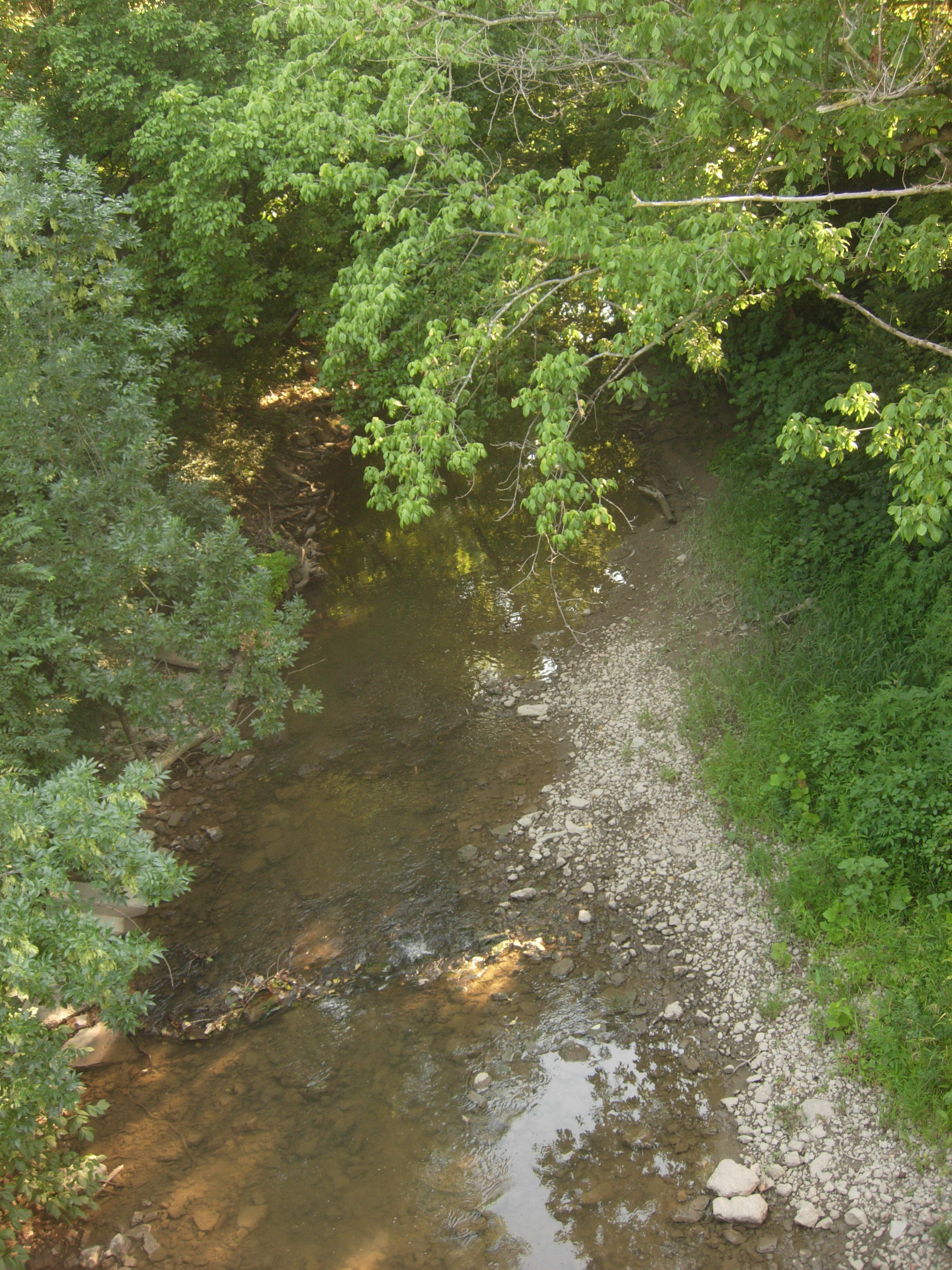 description:Mill Creek. photographer: thetorpedodog (Paul) location:Rochester, NY photographer_url: [1] flickr_url: [2] taken:July 8, 2007